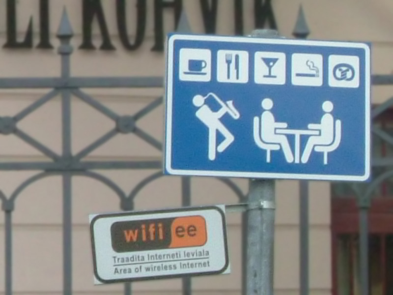 Wireless Internet Accesspoint in Tartu, Estonia